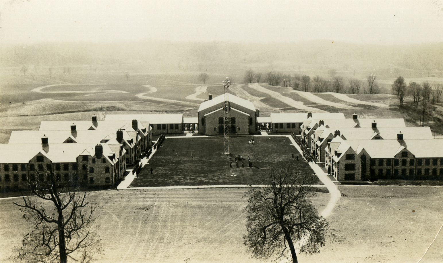 Collection Name: Algoa Prison Photograph Collection Photographer/Studio: Murphy, George Leland Description: View of “The Hill,” the building complex for Algoa, as seen from the water tower. There are six dormitory buildings and an administration/all-purpose building situated on three sides of a square lawn. There is a tower in the middle of the square. Men are lined up outside the dorms ready for dinner. A small band plays on the lawn next to a flag. Coverage: United States – Missouri – Cole – Jefferson City Date: 1934 Rights: Permission granted Credit: Courtesy of Missouri State Archives Image Number: MS355_103_128 Institution: Missouri State Archives